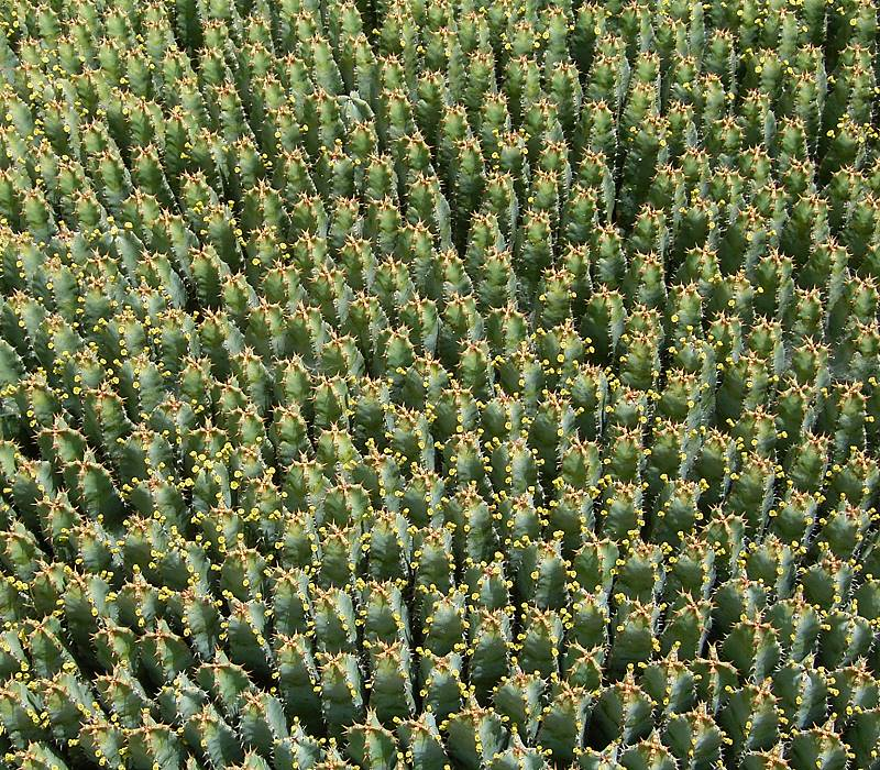 Euphorbia resinifera — Resin spurge. Endemic to the Atlas Mountains in Morocco.